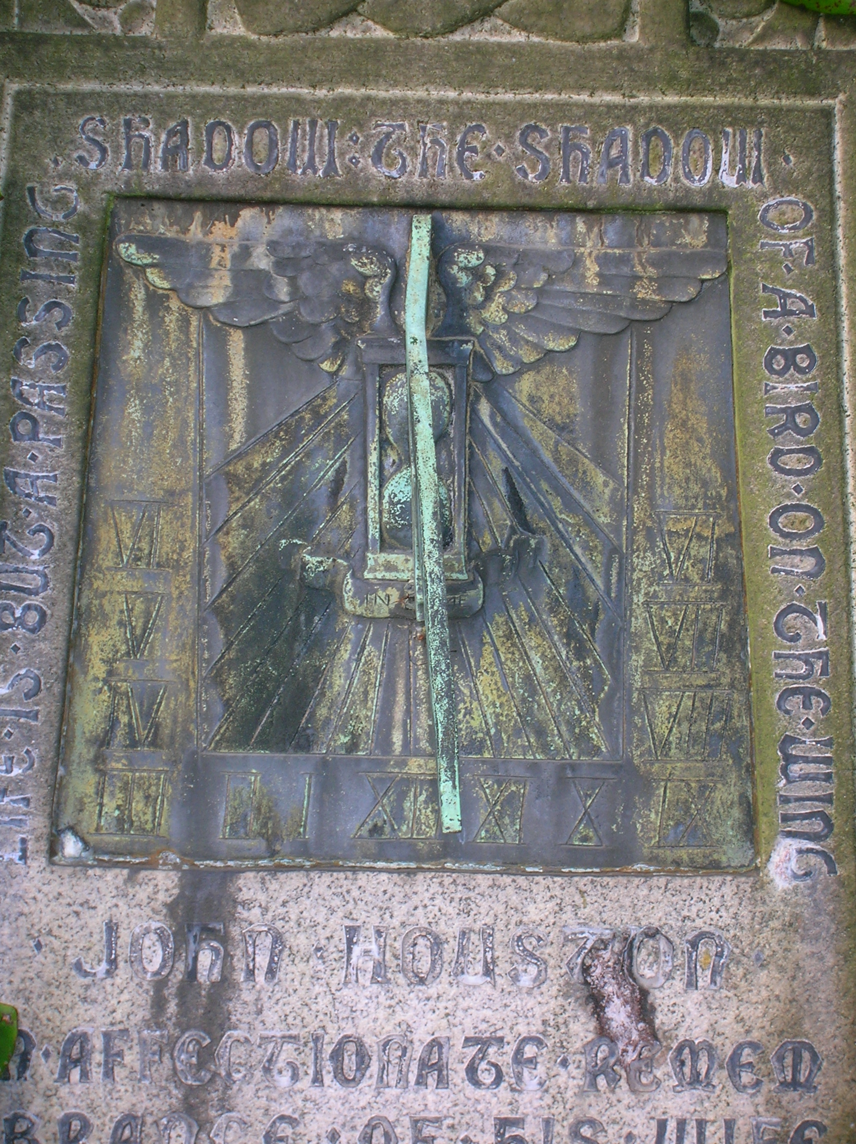 Detail of the sundial on a gravestone in Kilbirnie Barony churchyard.